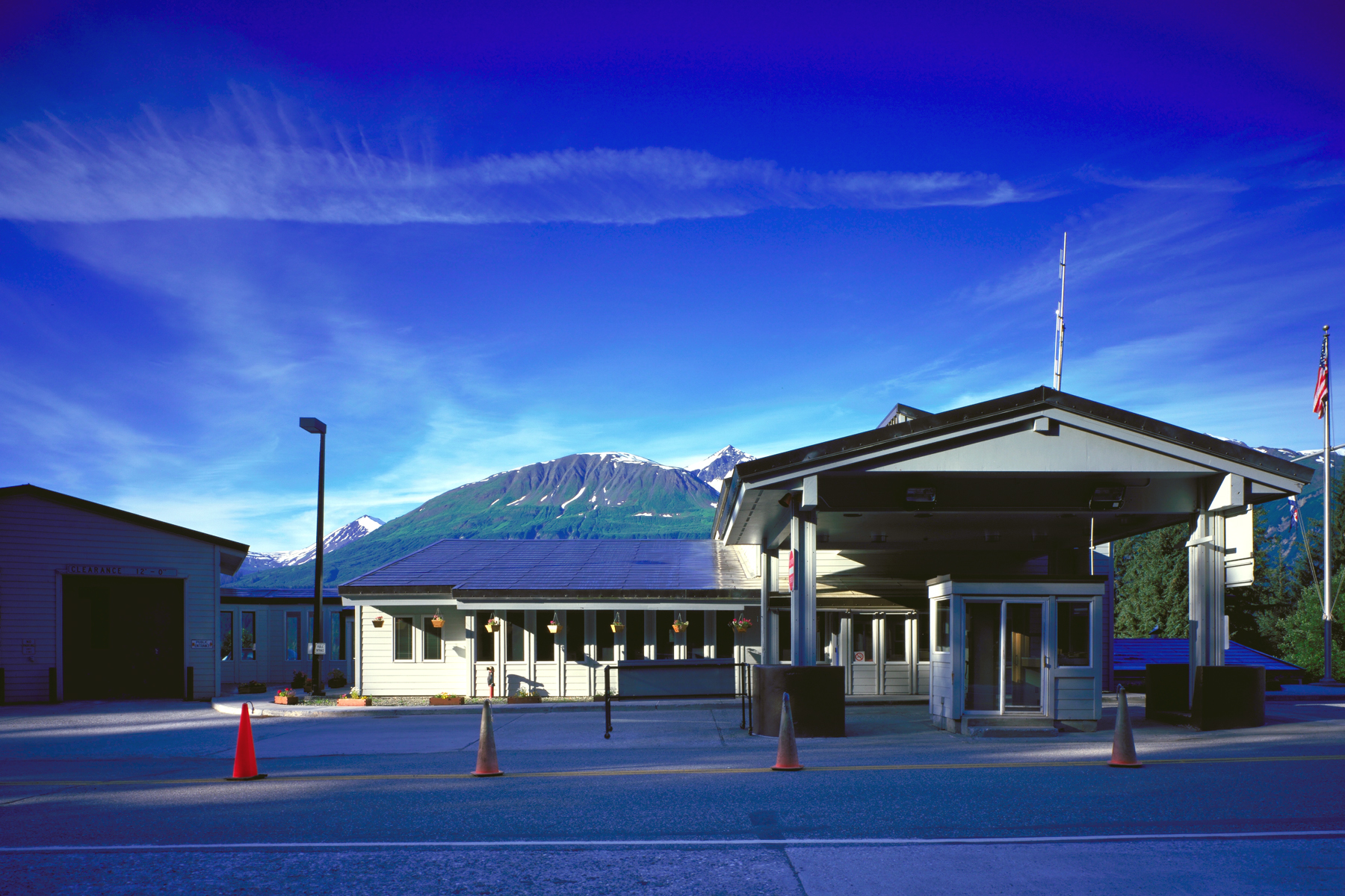 US Border Inspection Station at Haines, Alaska